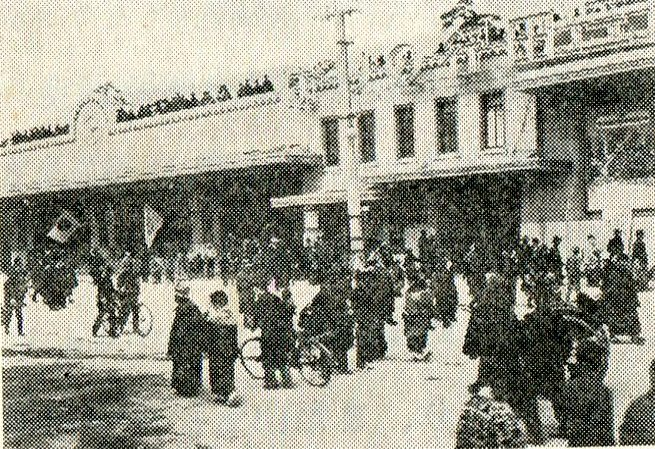 Minatogawa station in 1928.11.28